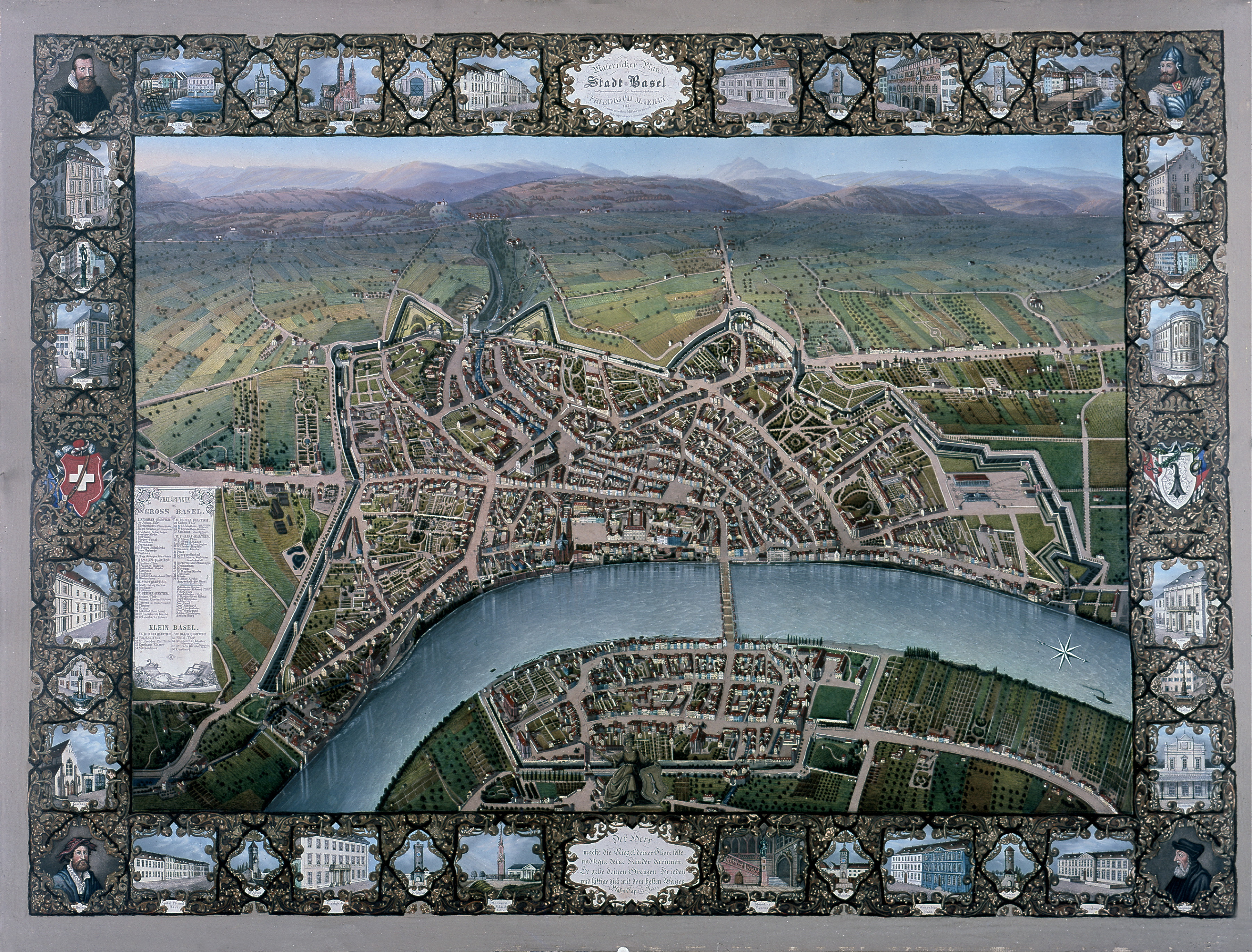 signed and dated 1847; Friedrich Mahly, Basle Coloured lithography; height 61.7 cm, width 84 cm; Inv. 1901.108.